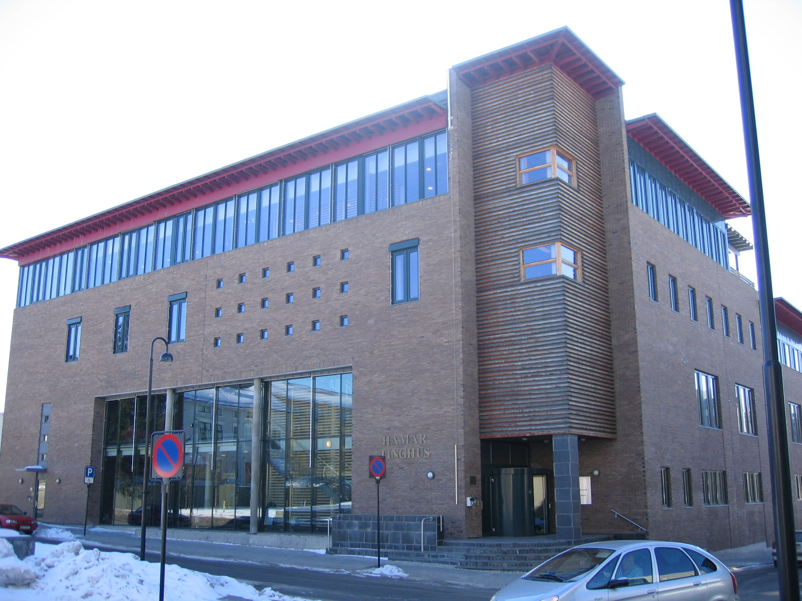 Hamar tinghus (courthouse), in Hamar, Hedmark, Norway.